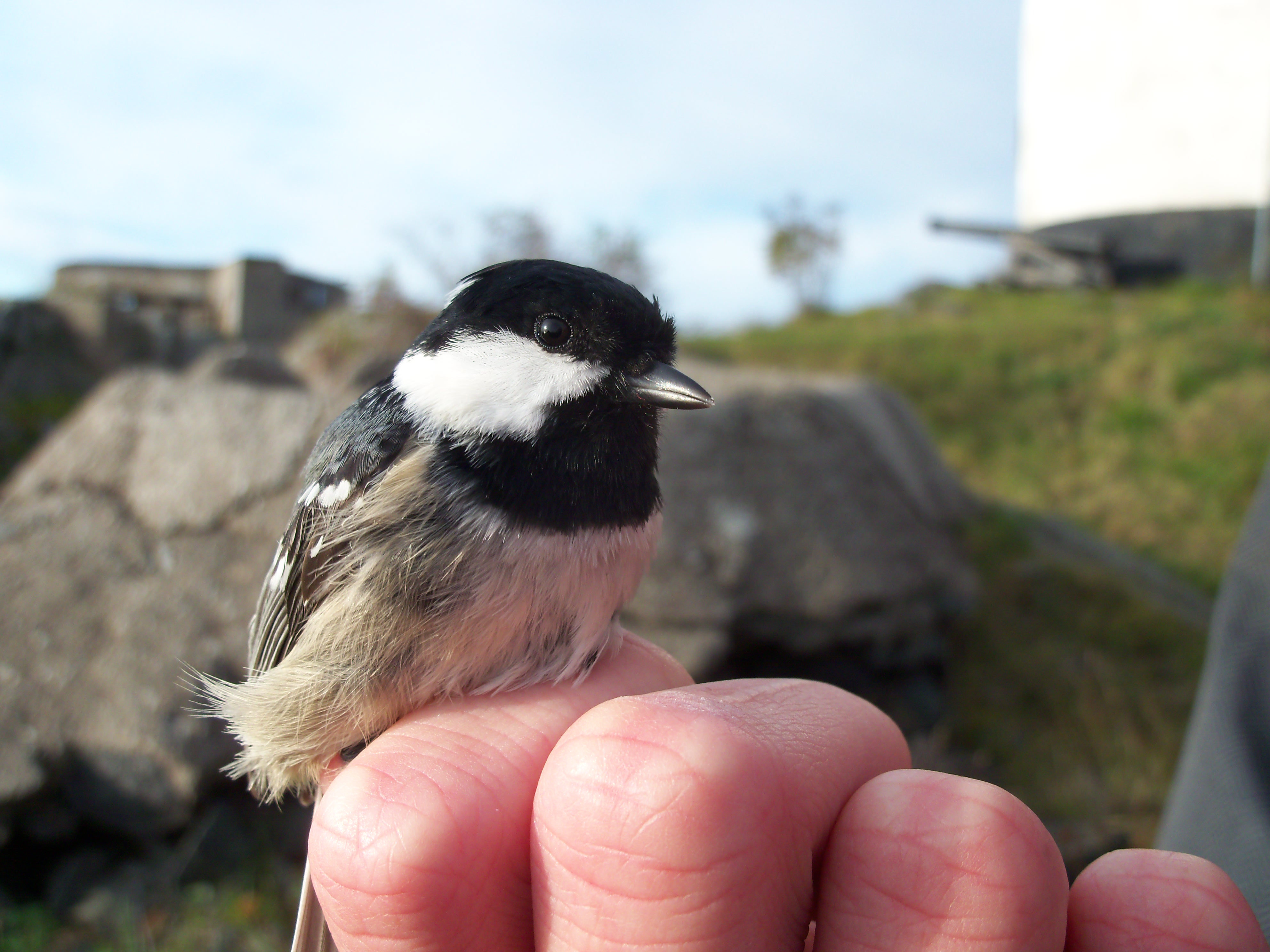 A Coal Tit (Periparus ater) ringed at Landsort Lighthouse on the south cape of the island Öja (Landsort), south of Nynäshamn in Södermanland in Stockholm County in Sweden. Landsort Bird Observatory is responsible for the ringing.